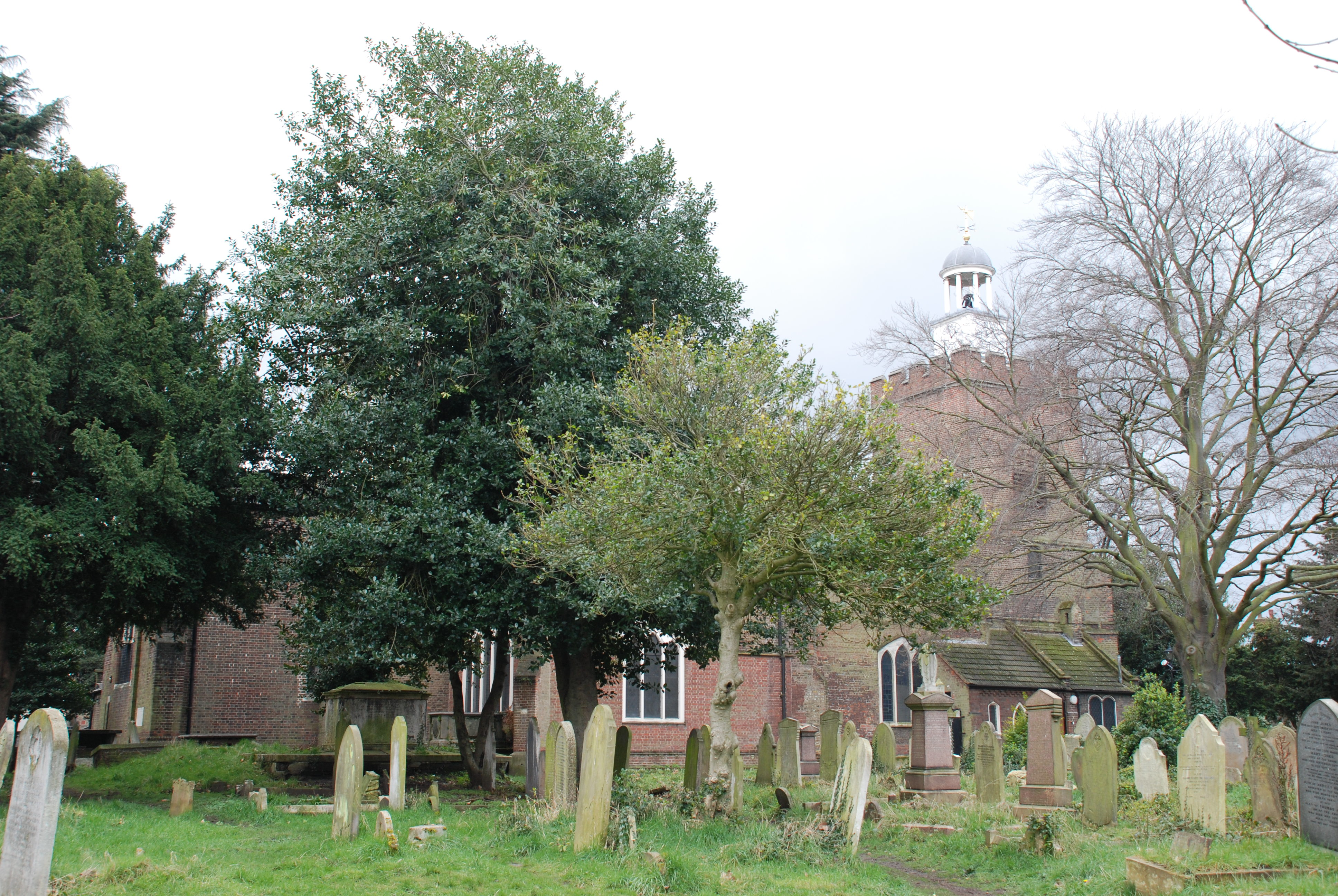 Leyton Parish Church, east London